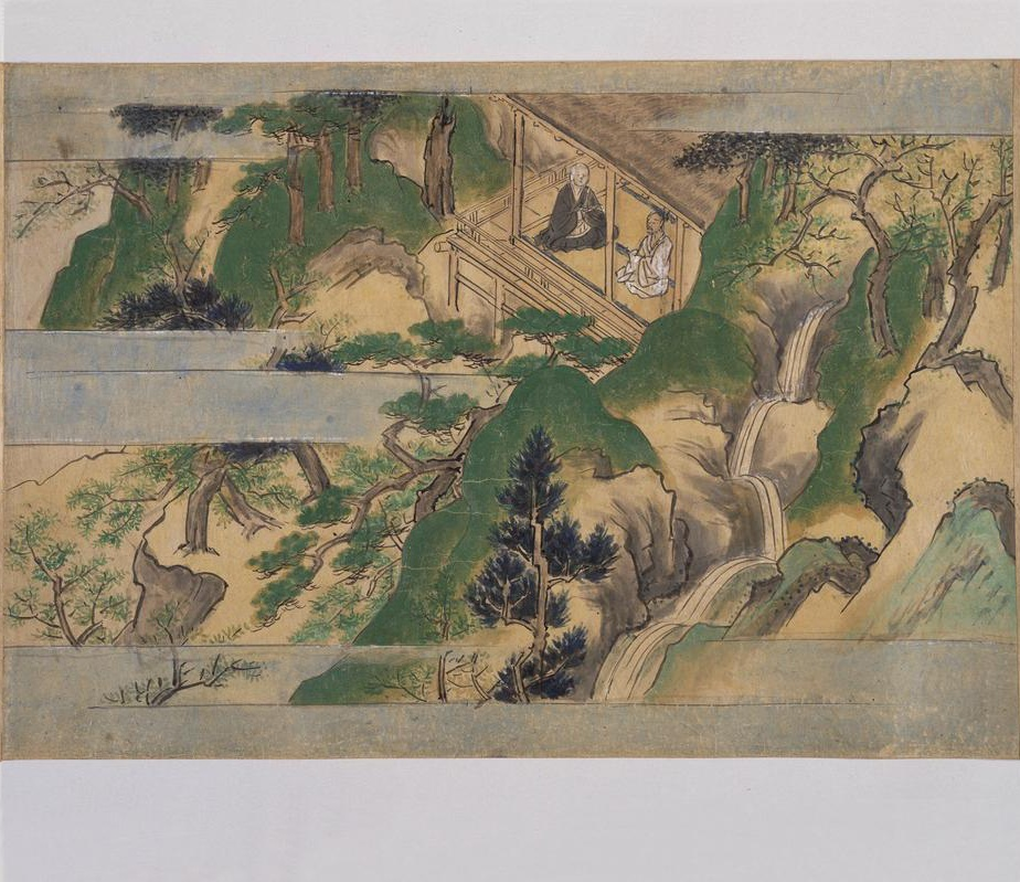 Kiyomizudera engi emaki - Scroll1 Pic3